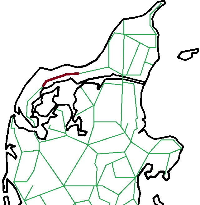 Map of railways in Northern Jutland in Denmark with the private railway Thisted-Fjerritslev Jernbane in brown.